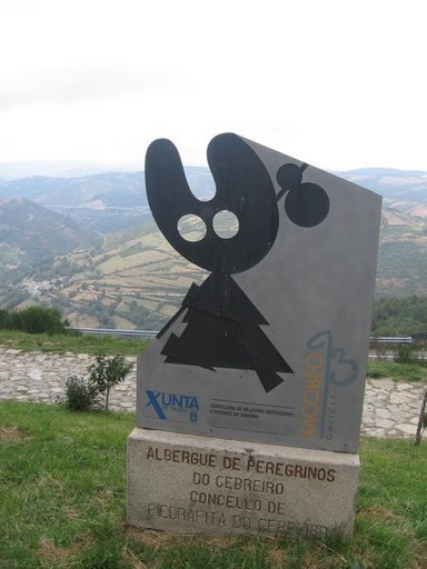 camino de santiago